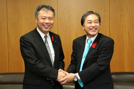 Mitsuru Sakurai, Senior Vice-Minister of Health, Labour and Welfare, took over the work by Yasuhiro Tsuji, former Senior Vice-Minister of Health, Labour and Welfare, at the Central Government Building No.5 in Chiyoda Ward, Tōkyō Metropolis on October 3, 2012. (For terms of use, see 利用規約｜厚生労働省.)